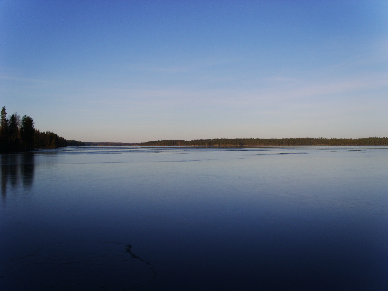 The lake Hunn outside Rejmyre in Östergötland.